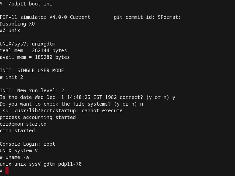 UNIX System V running on a simulated Digital Equipment Corporation PDP-11 using SIMH